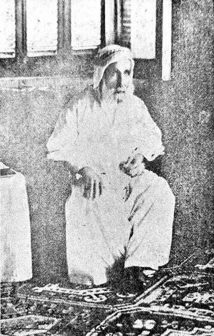 Hussein ibn Ali al-Hashimi, Sharif of Mecca.